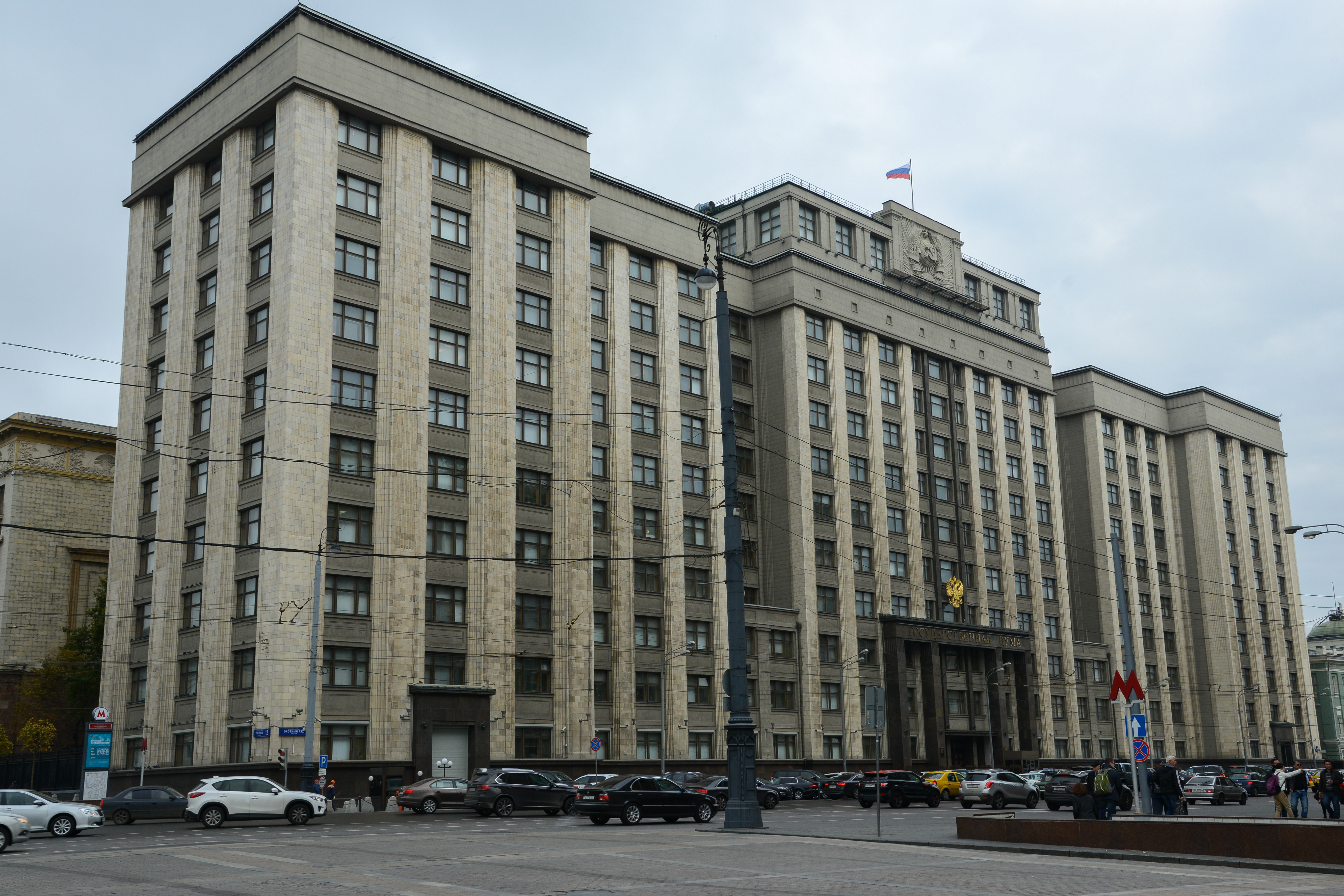 Stalinist architecture